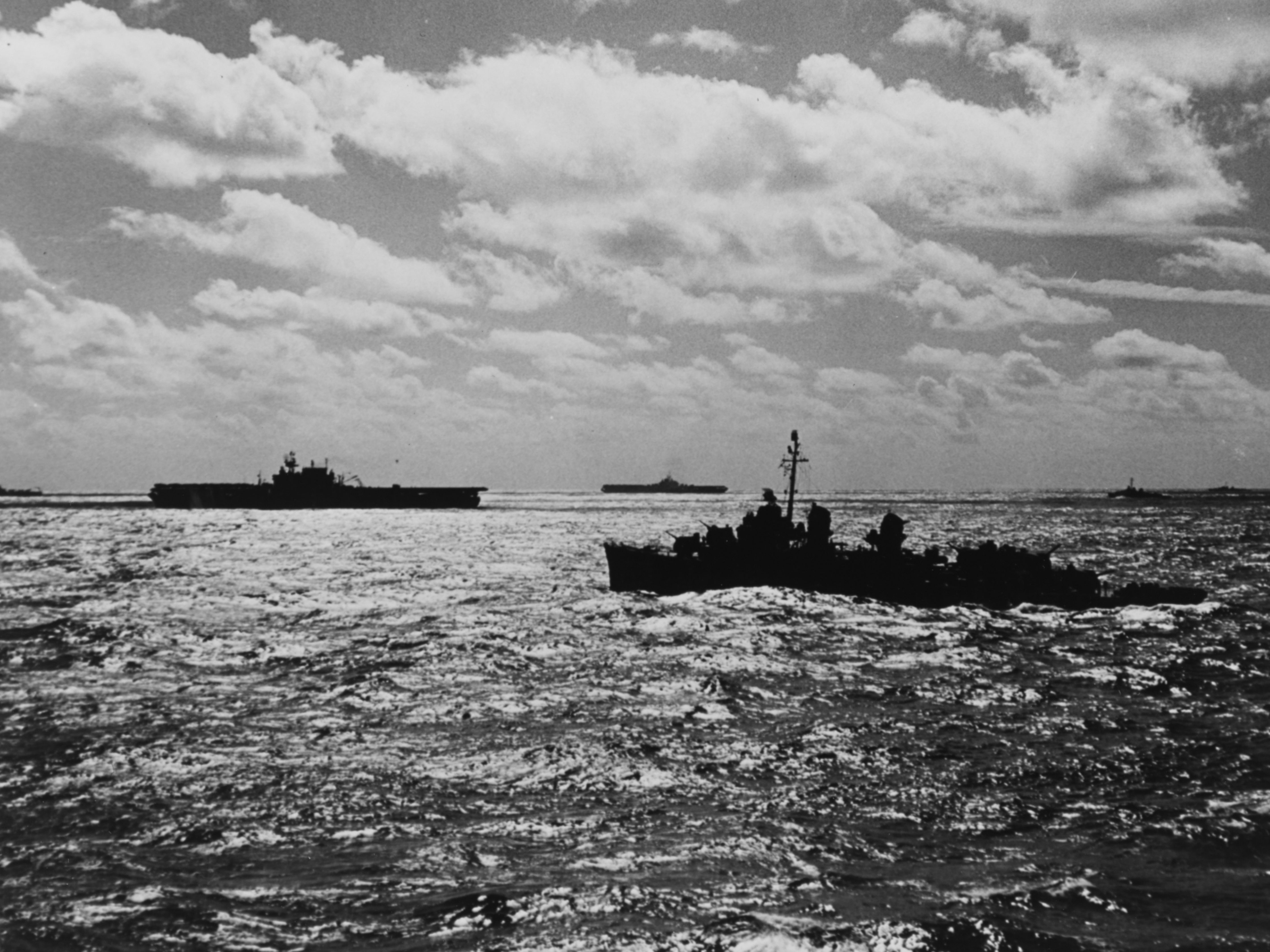 The U.S. Third Fleet warships en route to the Philippines, circa January 1945. The destroyer USS Stephen Potter (DD-538) is in the right center, closest to the camera. The aircraft carrier at left is USS Enterprise (CV-6).